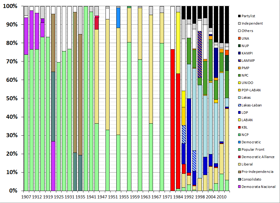 Party control of the House of Representatives of the Philippines on election day.